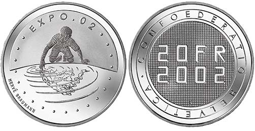 Swiss Commemorative Coin 2002 A CHF 20